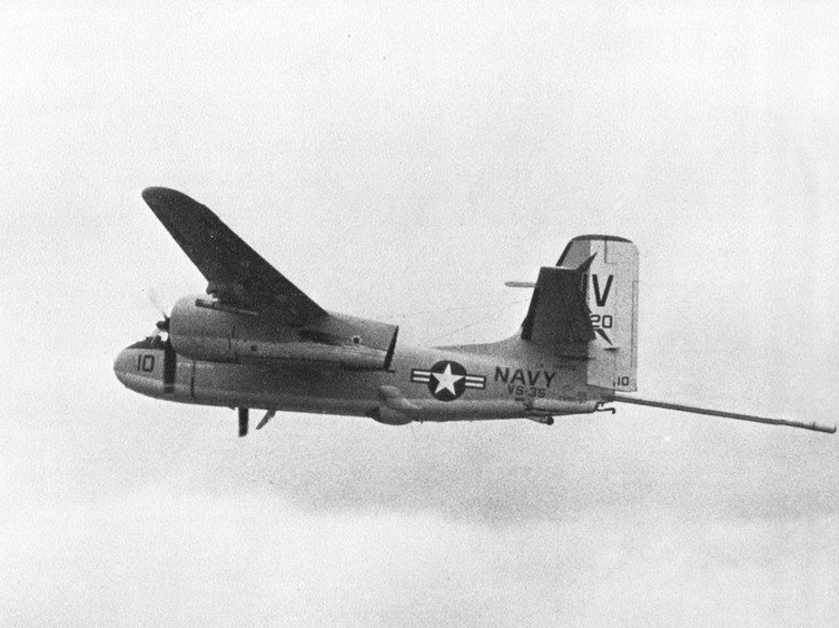 A U.S. Navy Grumman S-2D Tracker (BuNo 148720) from Anti-Submarine Squadron 35 (VS-35) "Boomerangers" in flight. VS-35 was assigned to Carrier Anti-Submarine Air Group 57 (CVSG-57) aboard the aircraft carrier USS Hornet (CVS-12) for a deployment to the Western Pacific and Vietnam from 12 August 1965 to 23 March 1966.